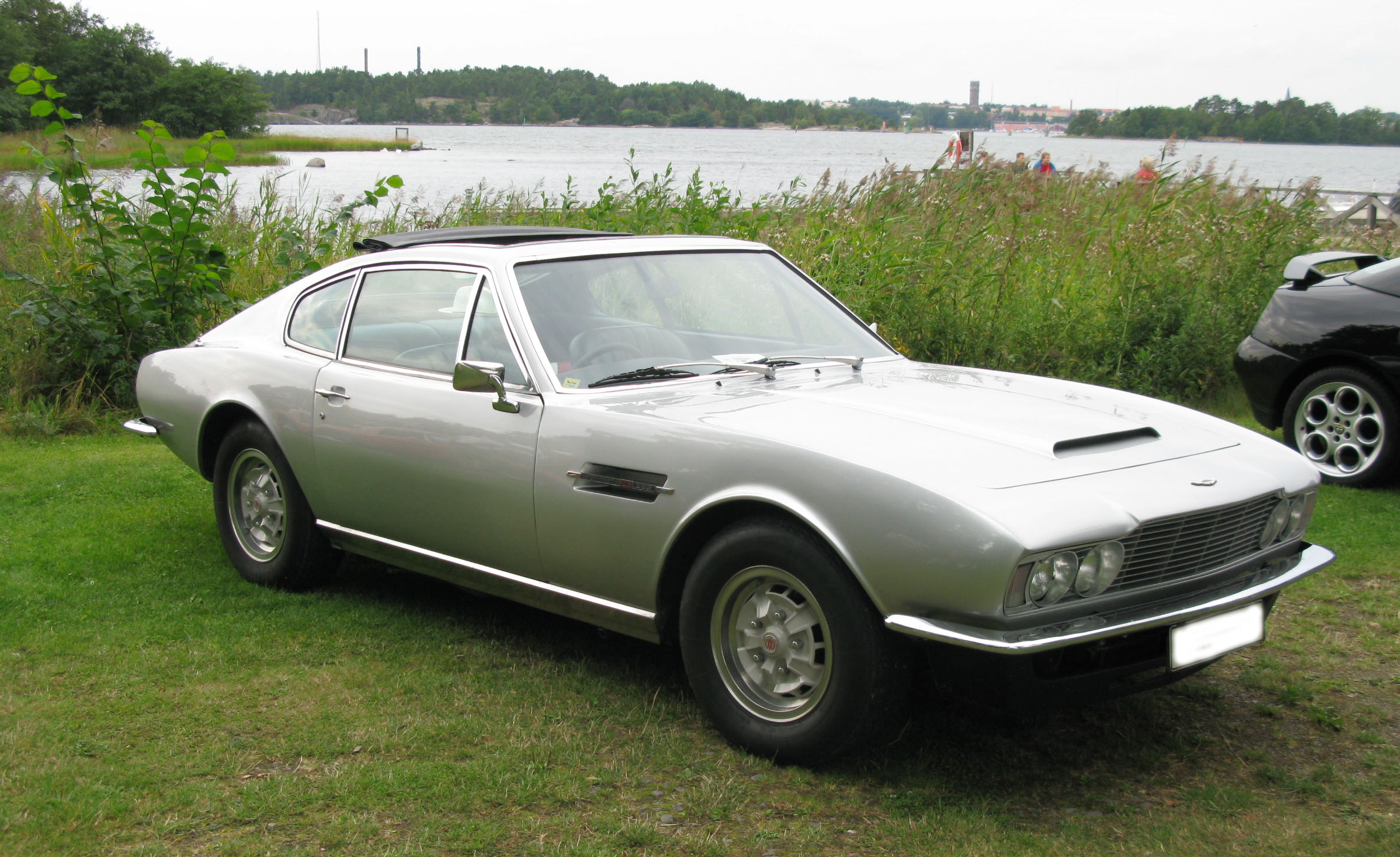 Three quarter view of 1970 Aston Martin DBS V8.